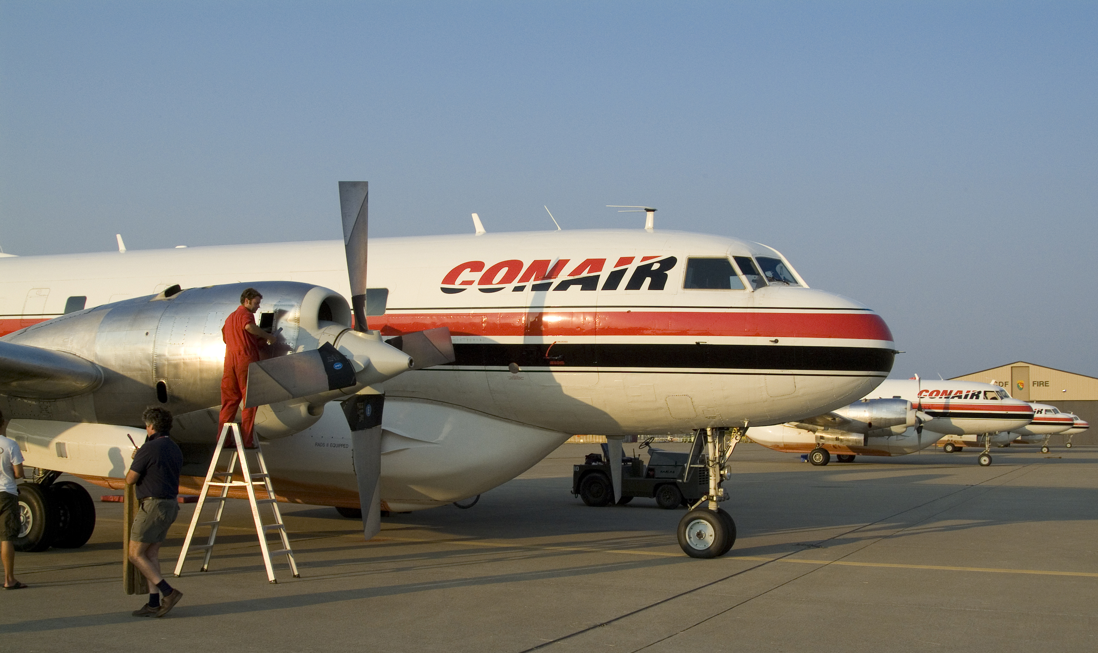 Sacramento, CA, July 13, 2008 -- The Canadian Forest Service Air tanker Operations from British Columbia provides unique capabilities and is part of a unified military support effort of U.S. Northern Command to provide assistance to the U.S. Forest Service, the California Department of Forestry and Fire Protection, and the National Inter agency Fire Center. Adam DuBrowa/FEMA